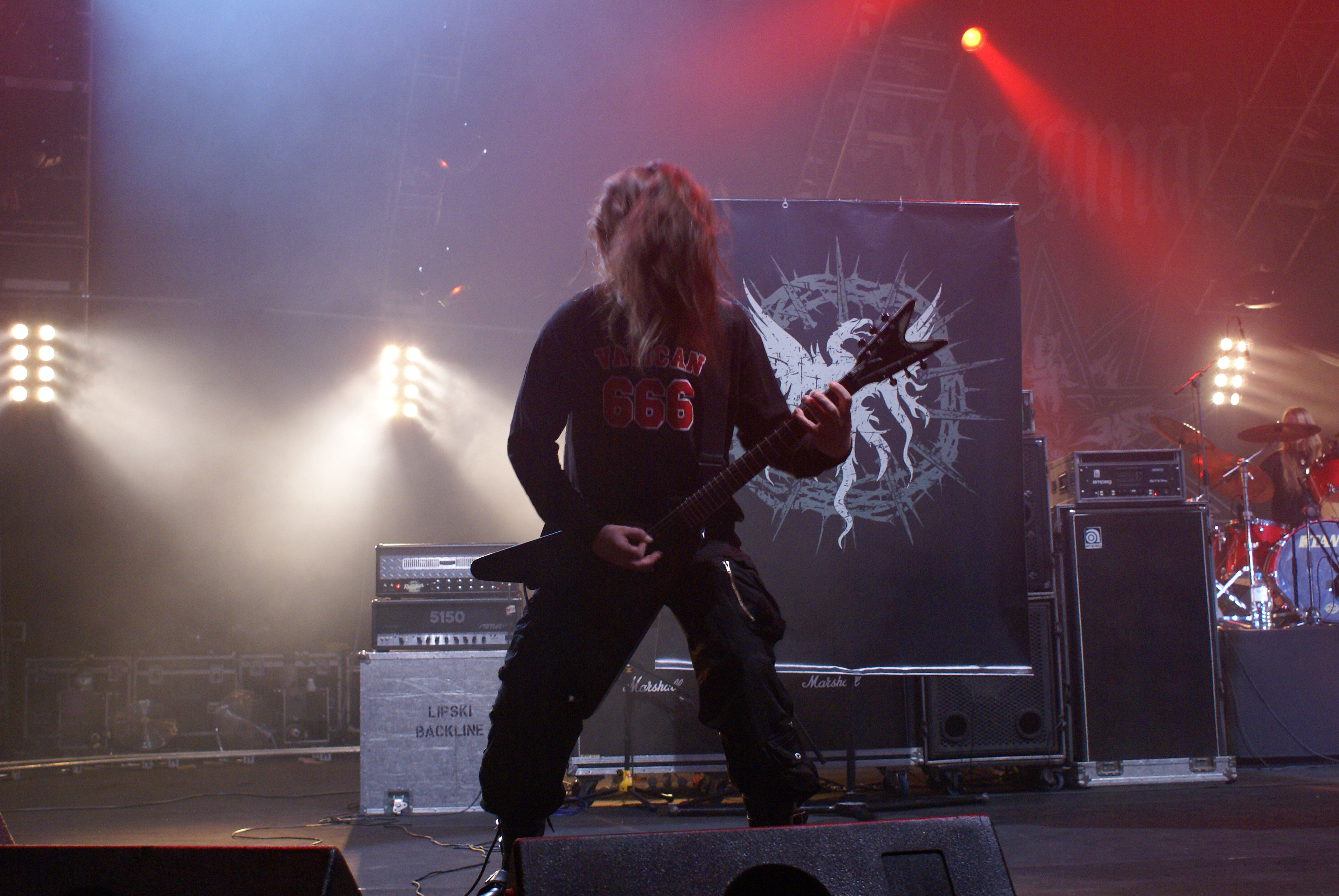 Damian "Daamr" Kowalski from Darzamat during Metalmania 2007 festival.